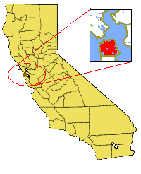 Overview map of California with San Francisco county highlighted.